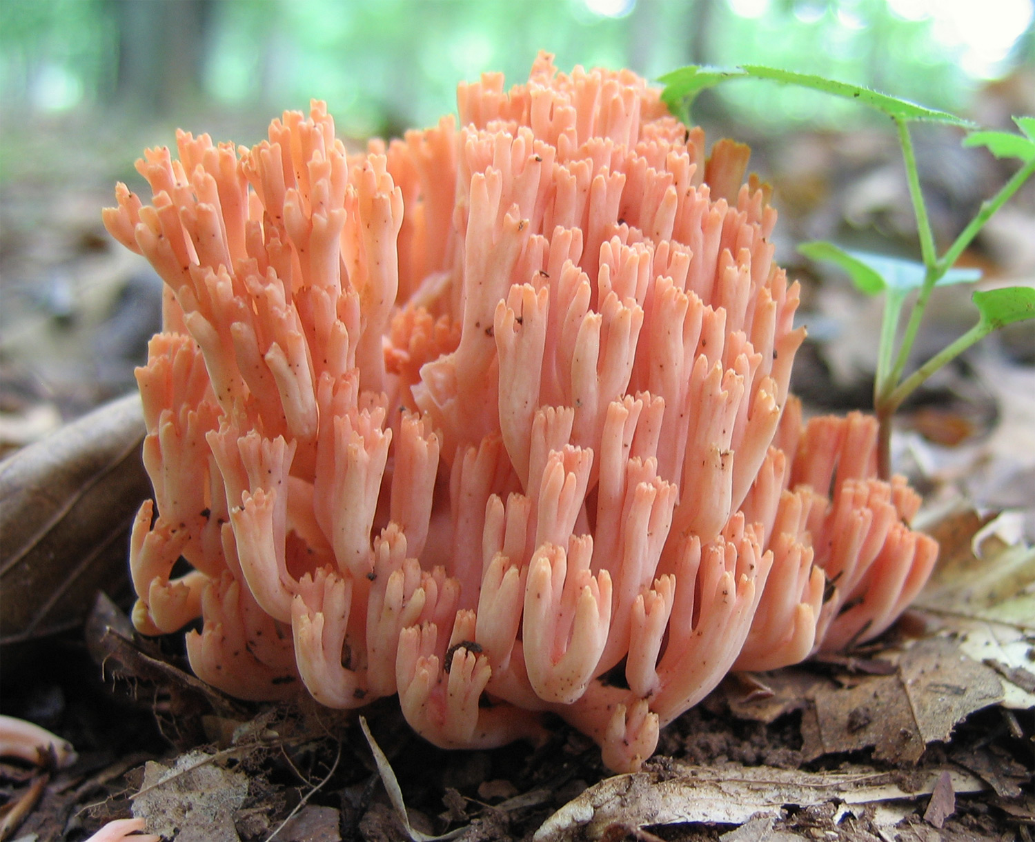 Ramaria sp. (45157)